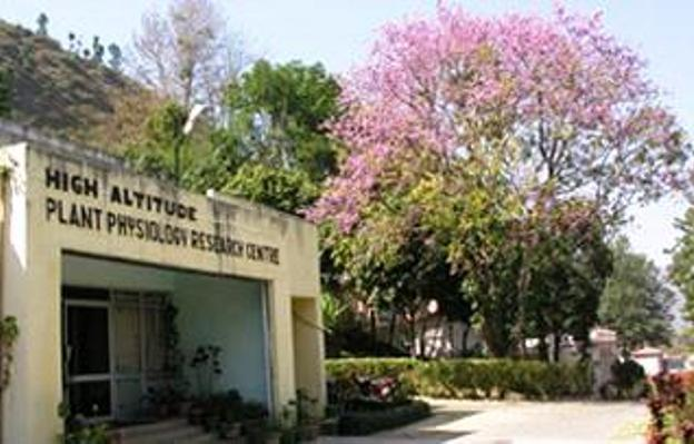 The High Altitude Plant Physiology Centre, Srinagar Garhwal was established by Prof. A.N. Purohit and he served as Director of this centre March, 1985 to August 1990 and from September 1995 till June, 2002